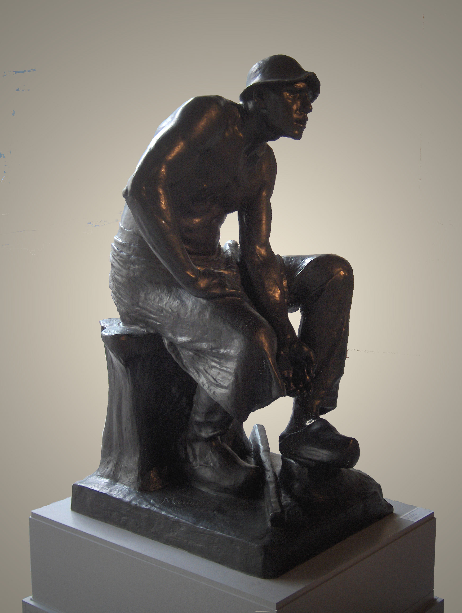 "Puddler" (1884-1888), bronze statue by Constantin Meunier (1831-1905) Royal Museum of Fine Arts, Brussels, Belgium